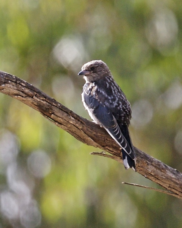 Dusky Woodswallow (Artamus cyanopterus) Capertee Valley,Blue Mountains, NSW, Australia 10th. February 2008 690V1919